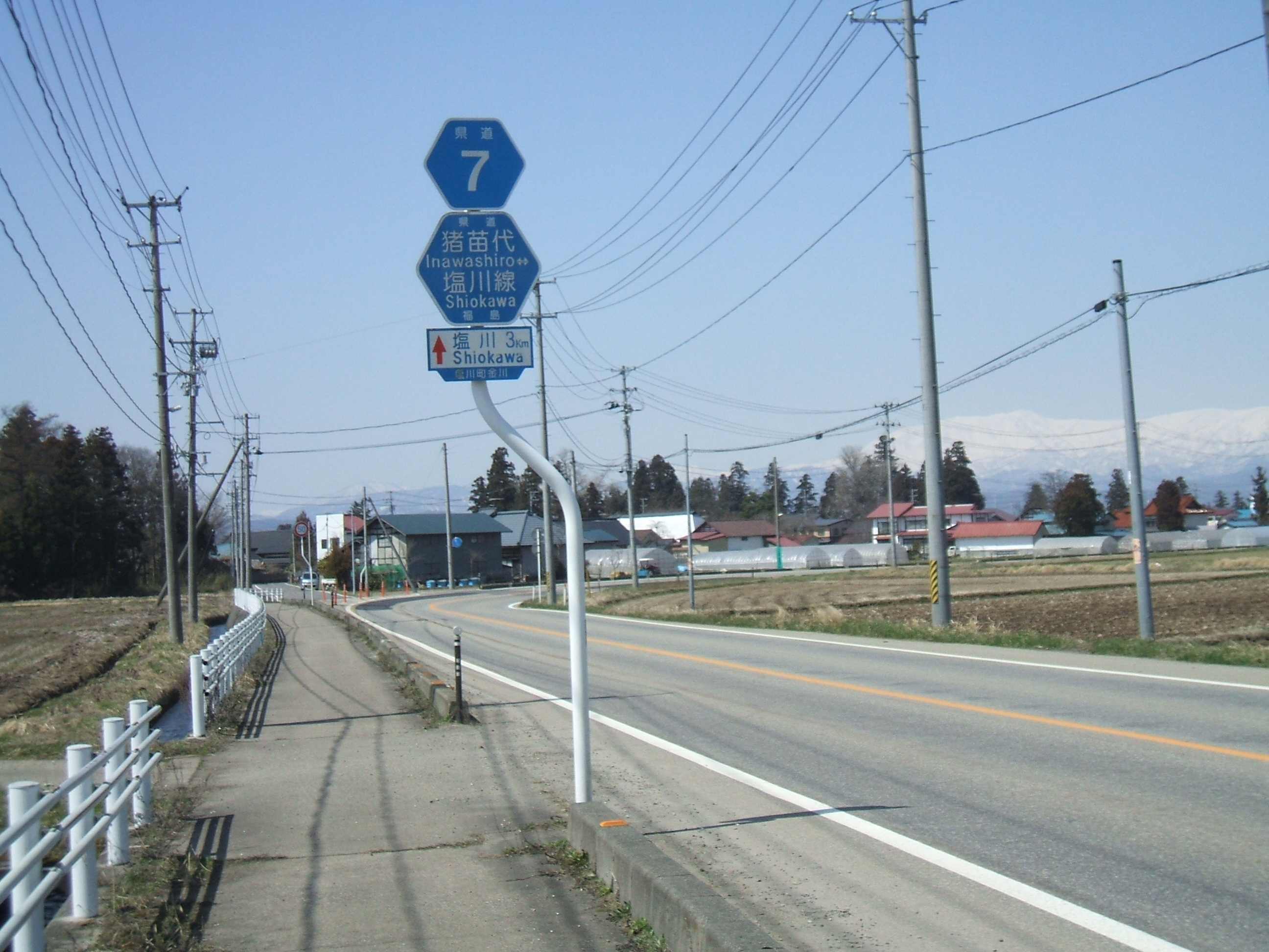 This is a landscape of Fukushima Prefectural Road Route 7 at Shiokawa, Kitakata, Fukushima.